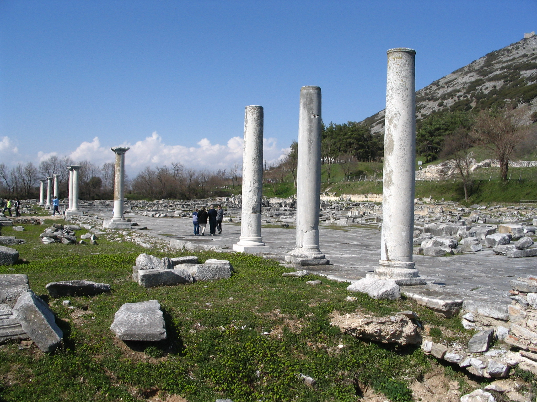 Ruins of ancient Philippi, looking NW along the southern portico (stoa) of the city's main marketplace (or agora). A roof would have covered the grassy area along the near side of the line of monumental columns. The broad stone-paved area beyond was the open market area. Along the far (northern) side of this market ran the via Egnatia, the main Roman highway through Macedon. In the distance (at right) is visible the acropolis, or high hill, of the city. The Roman inhabitation spread up much of the hill's SW face.